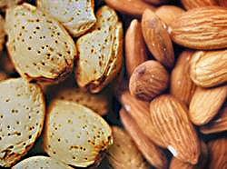 Almonds (in the shell and not). I took this pic myself using a Nikon FM2 with a Tamron 35-70mm macro zoom lens and Kodak 400s film. I release this picture into the public domain; you may not claim you took this photo yourself, but you do not need my permission to use it in any other way for any reason. --KQ 12:44 Aug 31, 2002 (PDT) 画像:Almonds th.jpg Nikon logo 2012.10.png This photograph was taken with a Nikon FM2.